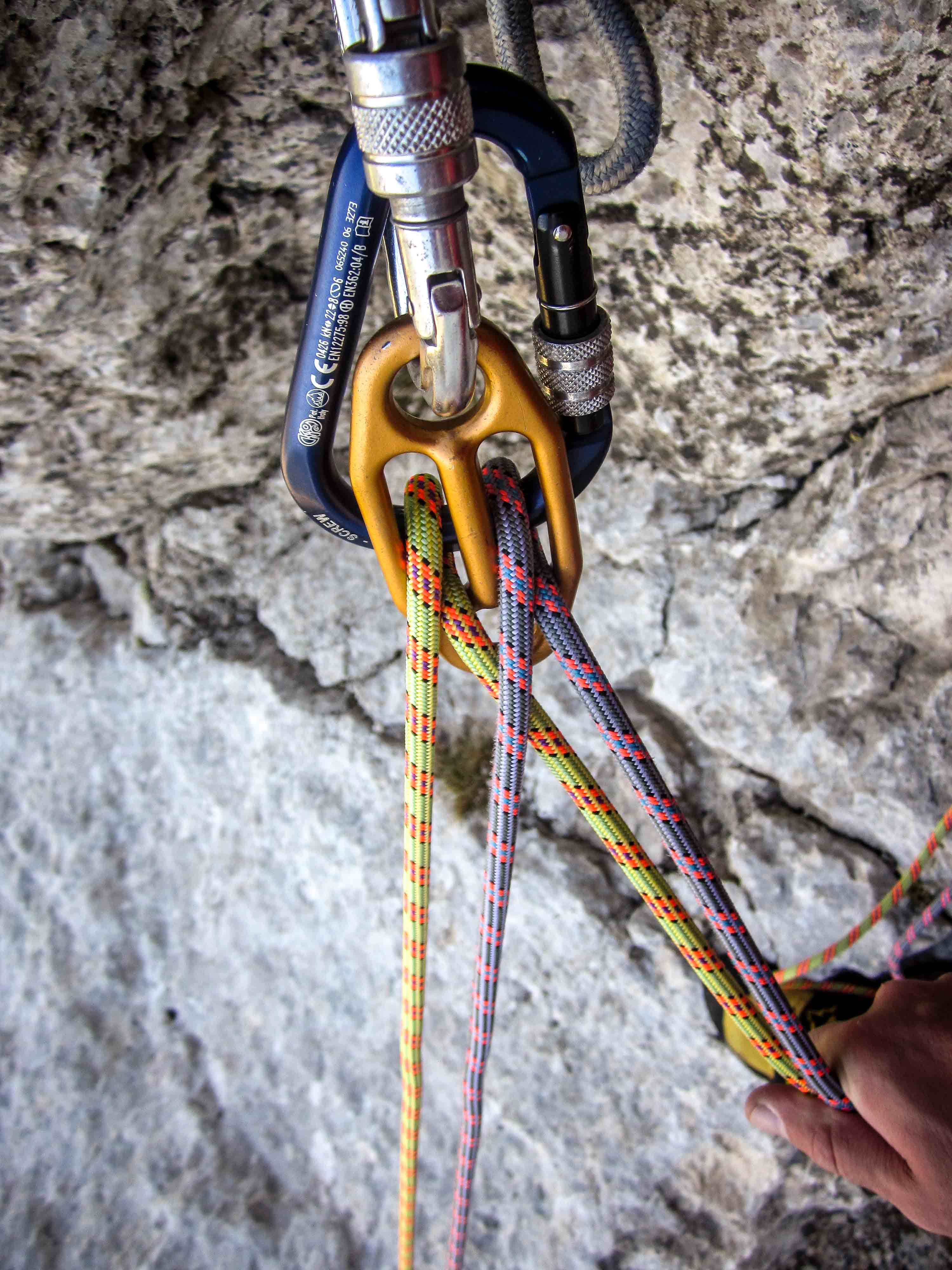 plate belay device